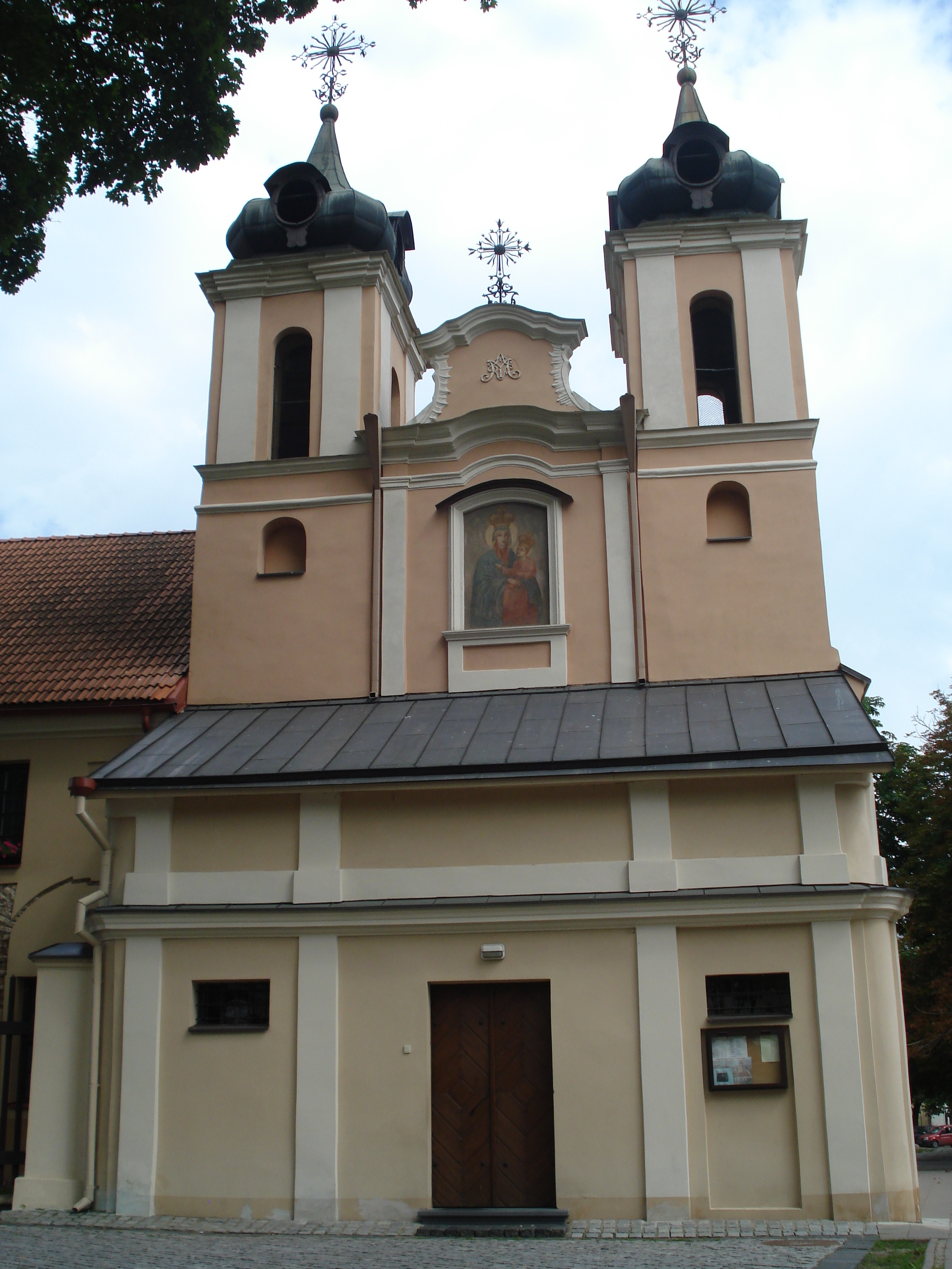 Church of the Holy Cross in Vilnius